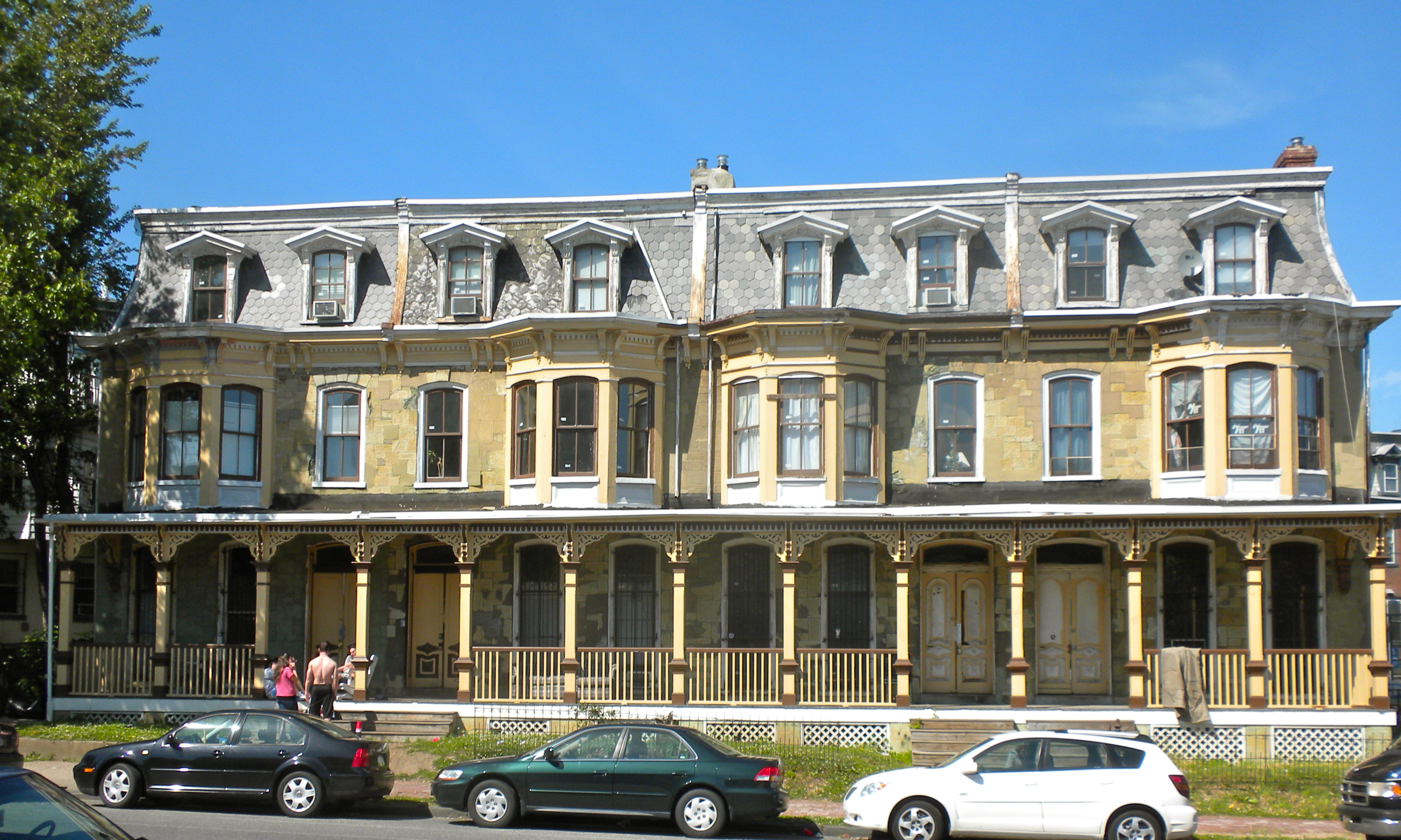 John Shedwick Development Houses on NRHP since March 10, 1982. At 3433–3439 Lancaster Avenue in Powelton Village neighborhood of Philadelphia. Near Drexel University